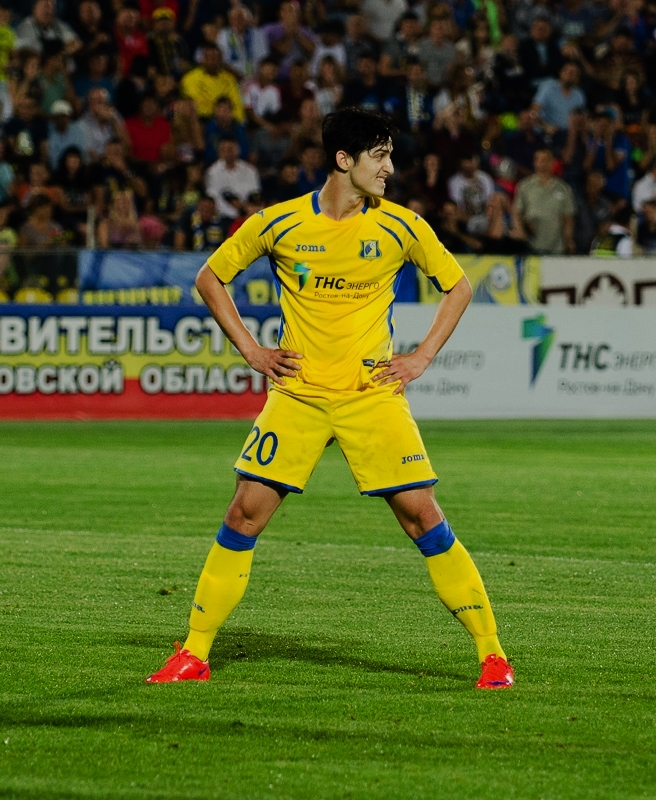 Sardar Azmoun